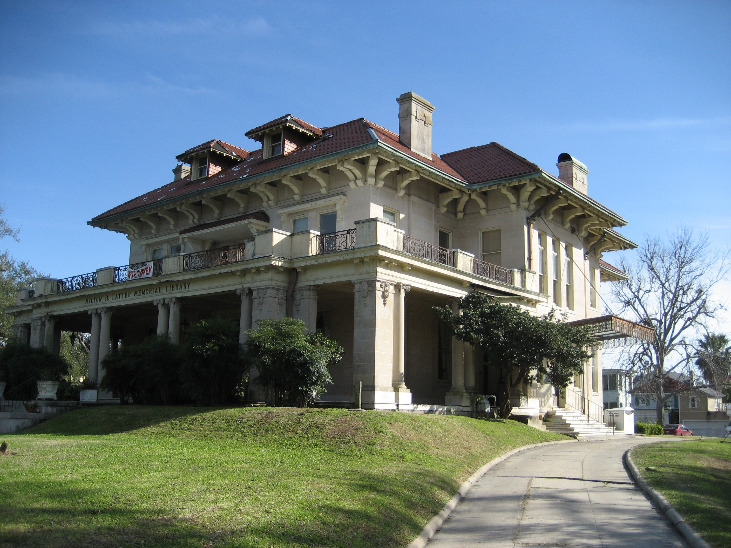 Milton Latter Library, New Orleans